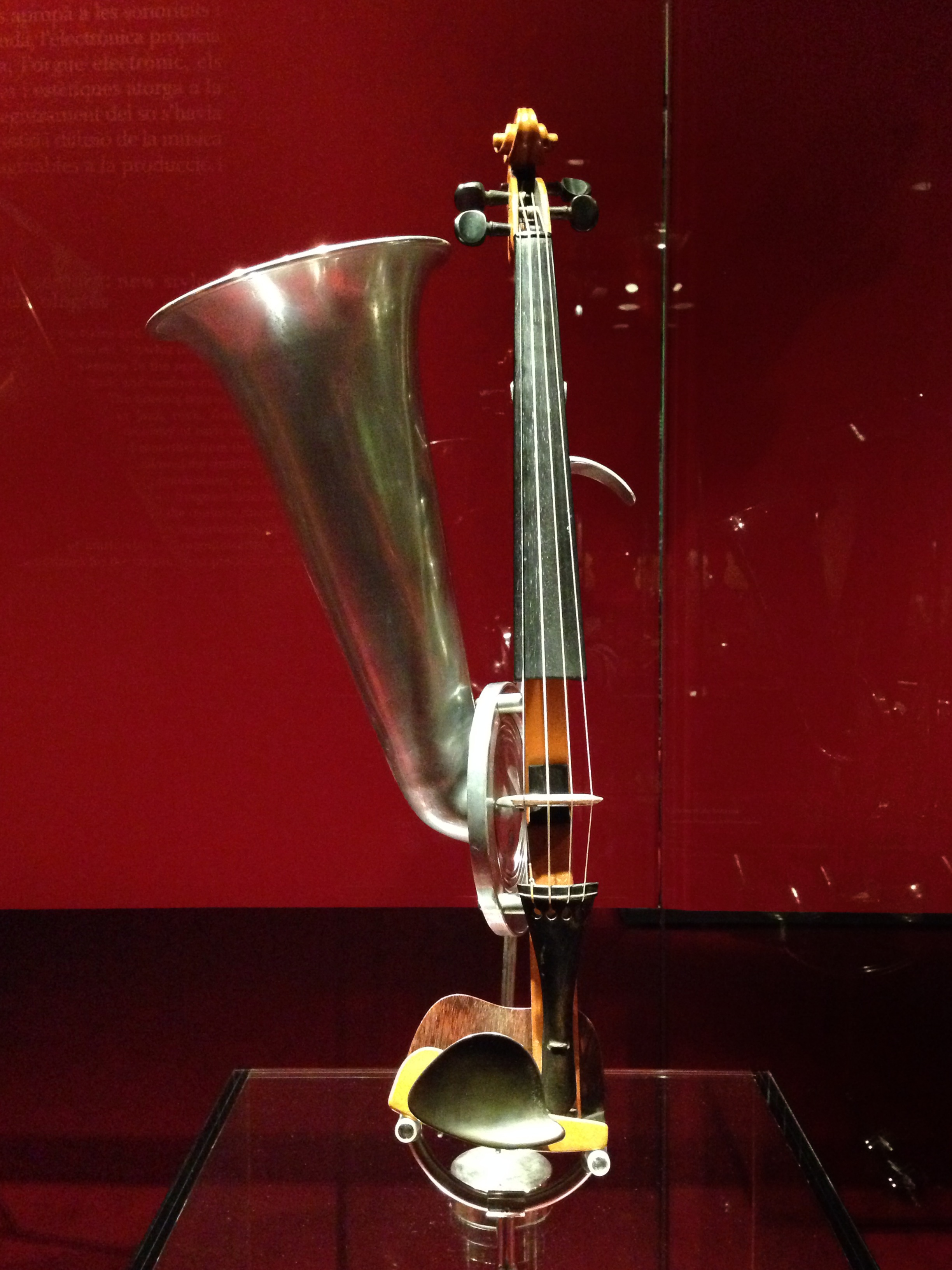 Stroh violin from Museu de la Música de Barcelona